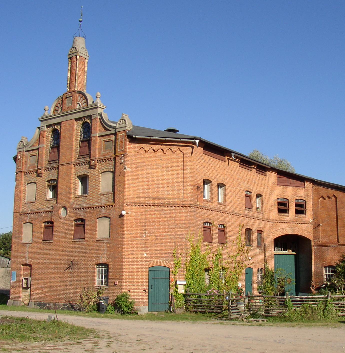 Storehouse in Schorssow-Bristow in Mecklenburg-Western Pomerania, Germany